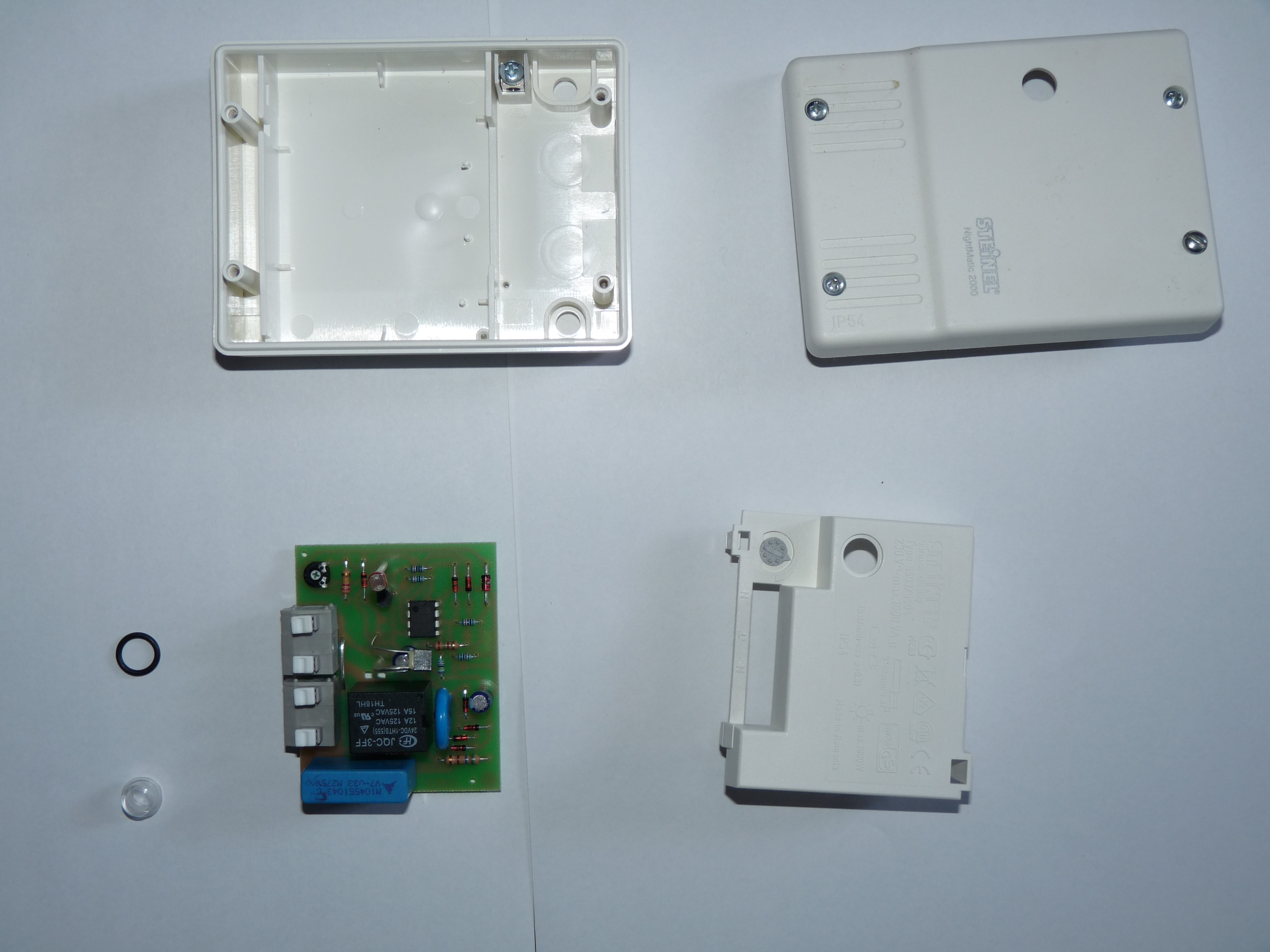 Light relay Steinel Nightmatic 2000